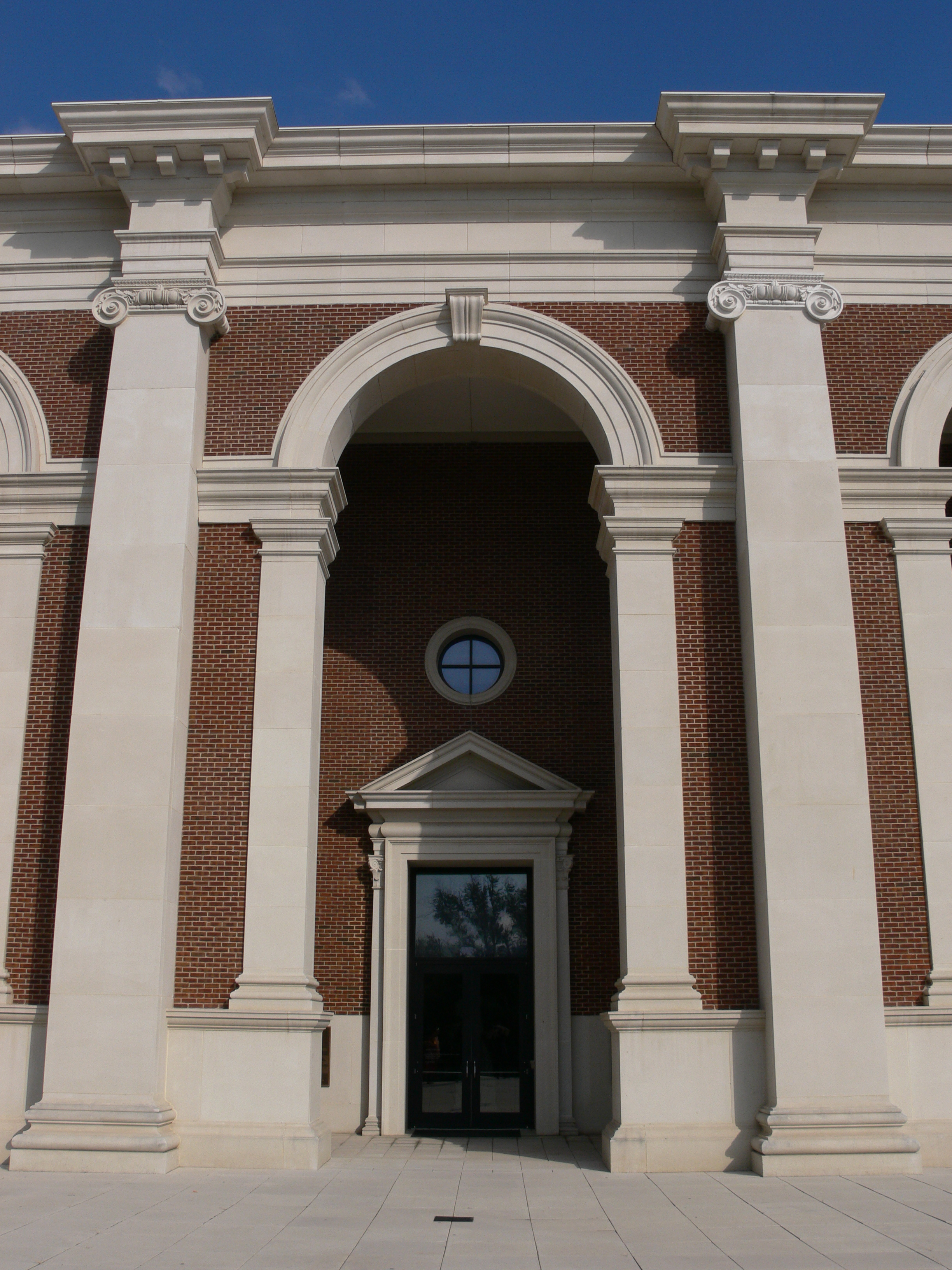 Meadows Museum at SMU, Dallas, Texas